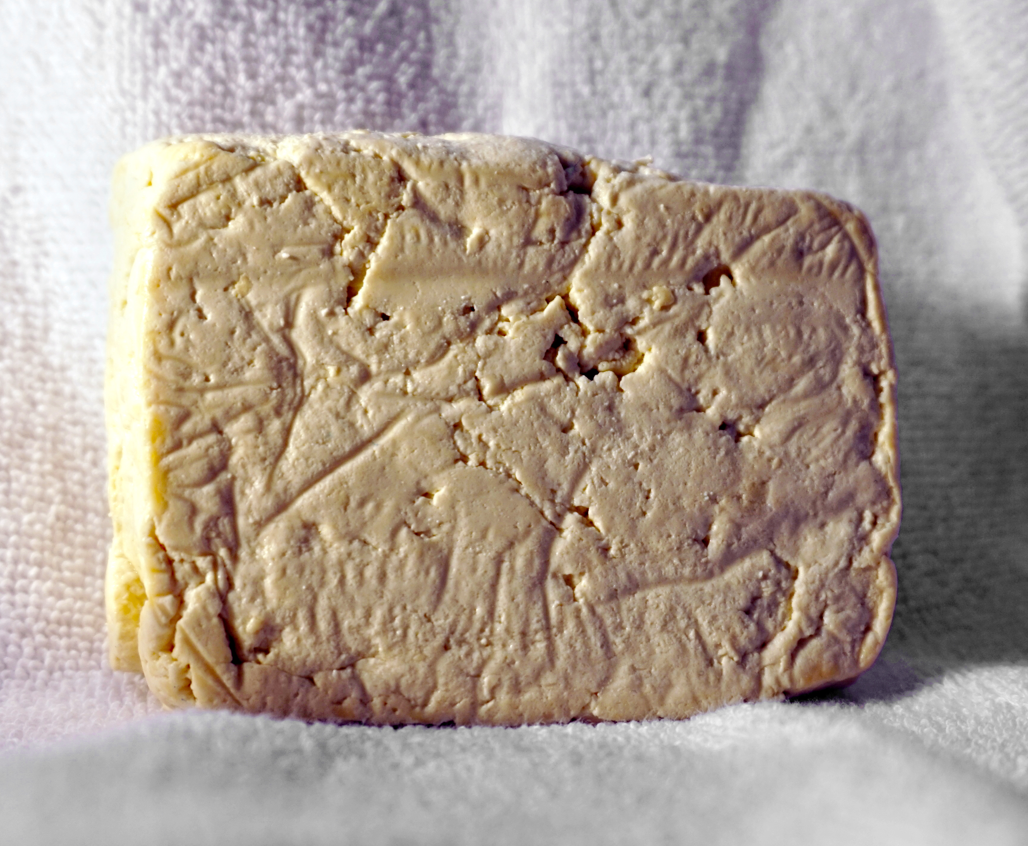 Tofu. This photograph was taken with a Sony Alpha a5000.